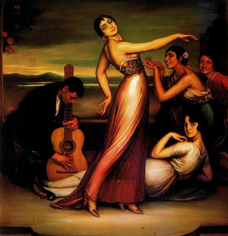 Happiness by Julio Romero de Torres.